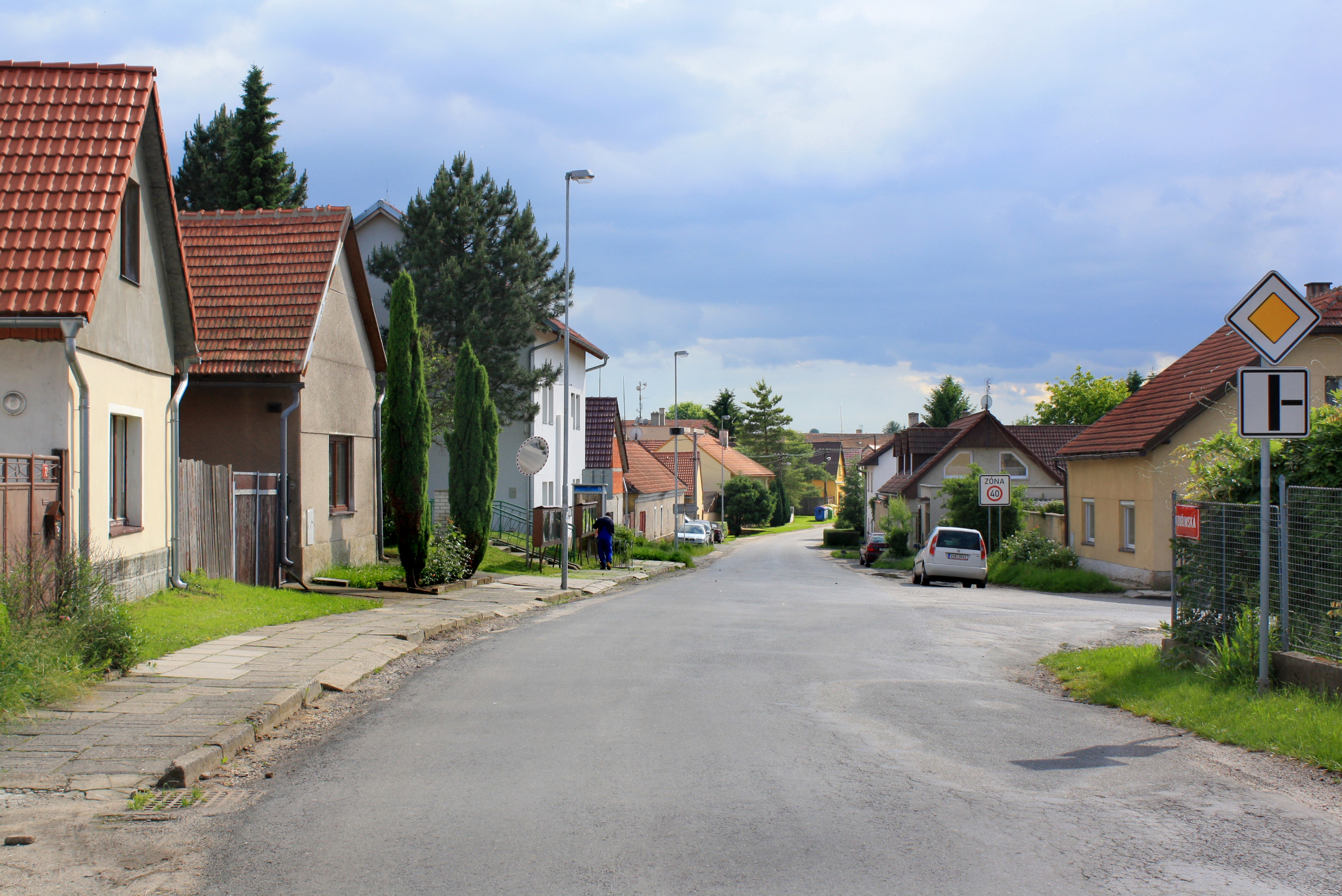 Common in Tatce village, Czech Republic